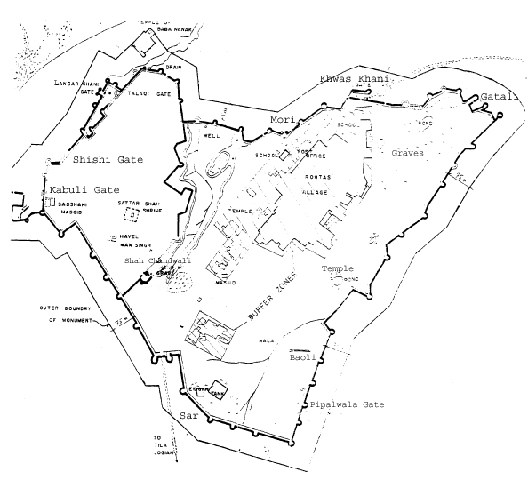 Taken from the World Heritage List Document 586. i fixed the diagram. Rewrote the names of the gtes. deleted useless info.